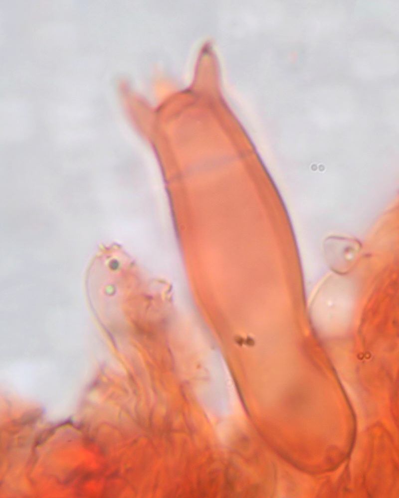 Basidia, colored with Congo Red